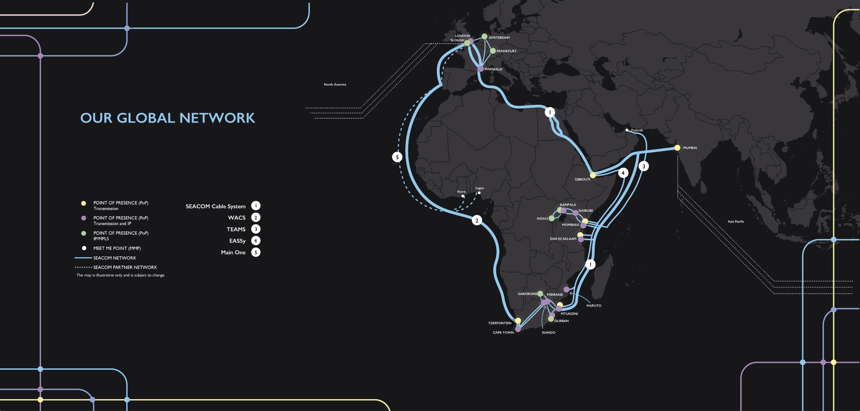 Global Network Map